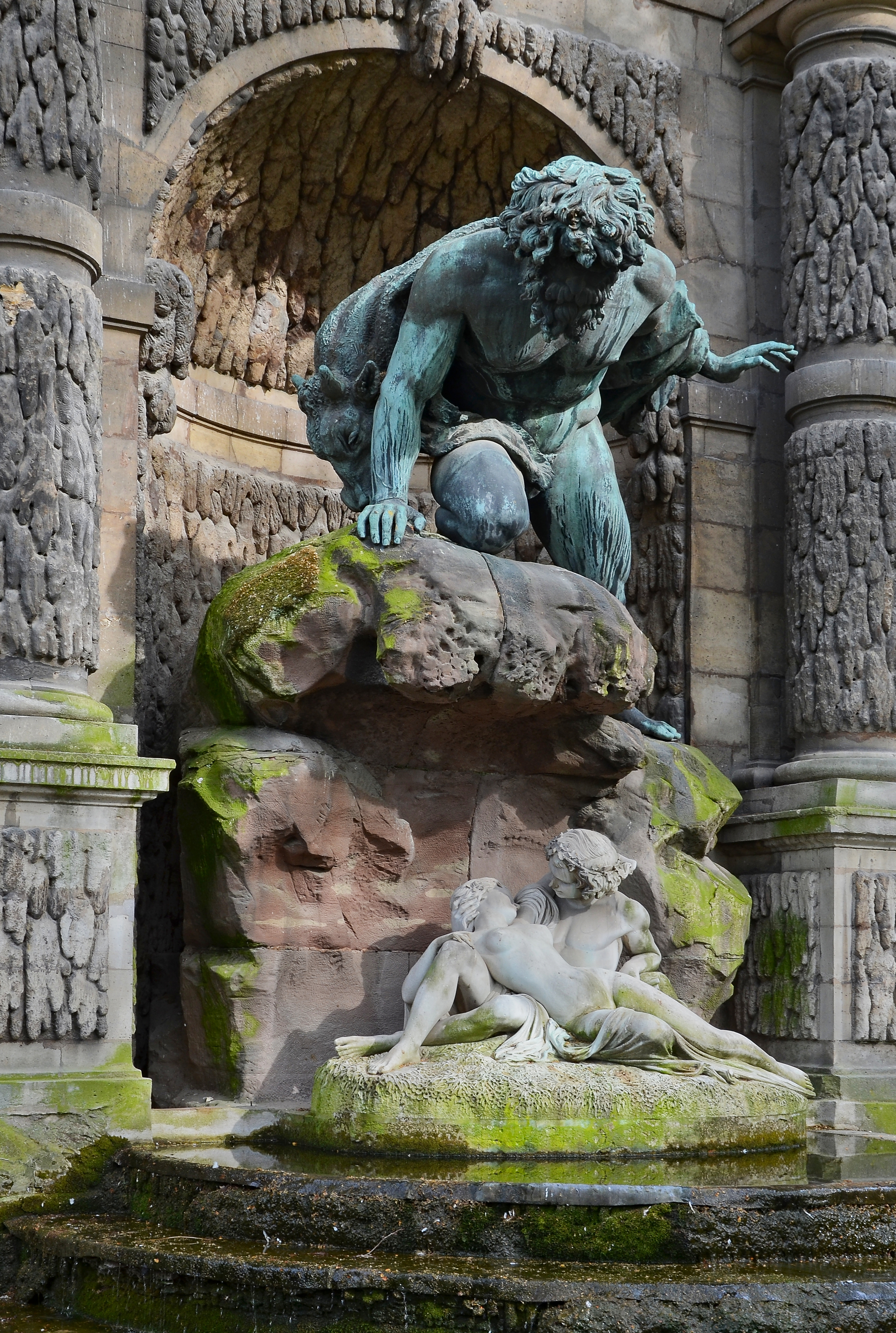 Acis and Galatea found out by Polyphemus (1866), by Auguste Ottin, main monument of Medici Fountain, jardin du Luxembourg, Paris (6th arr.)